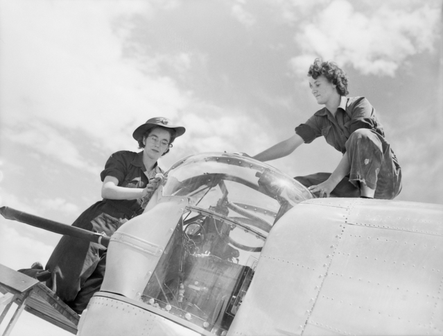 Two WAAAF armourers working on a gun turret of a Consolidated B-24 Liberator bomber aircraft at No. 7 Operational Training Unit, RAAF Station Tocumwal.